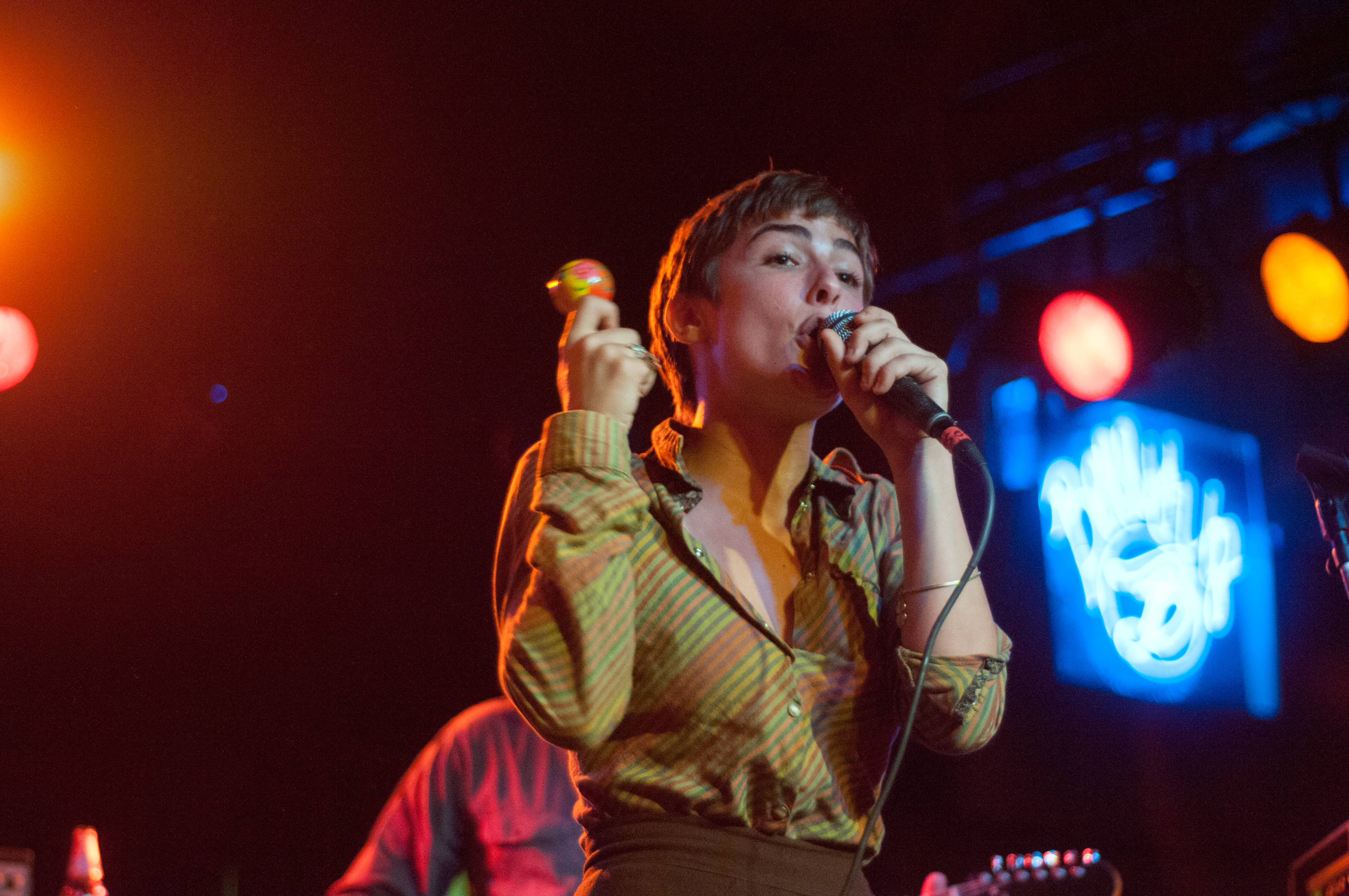 Jade Castrinos performing with Edward Sharpe and the Magnetic Zeros at The Belly Up, Solana Beach, California